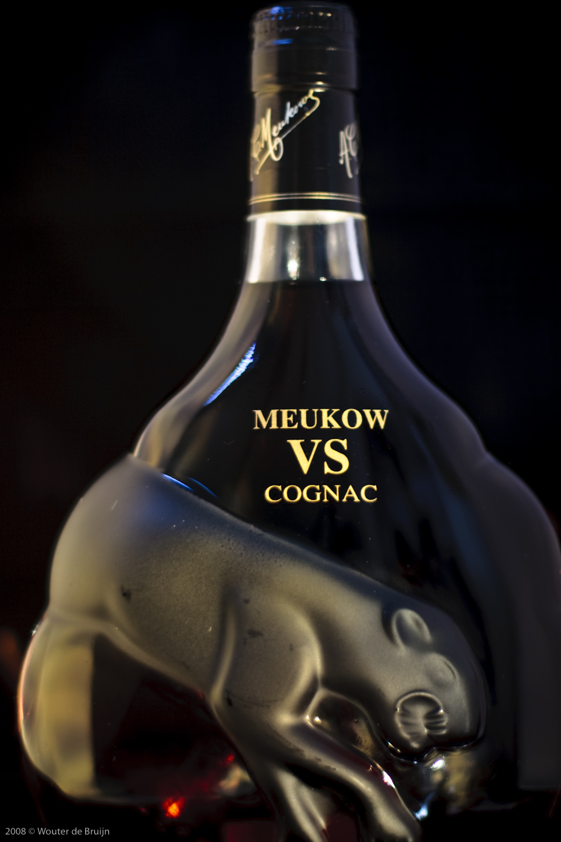 Meukow VS